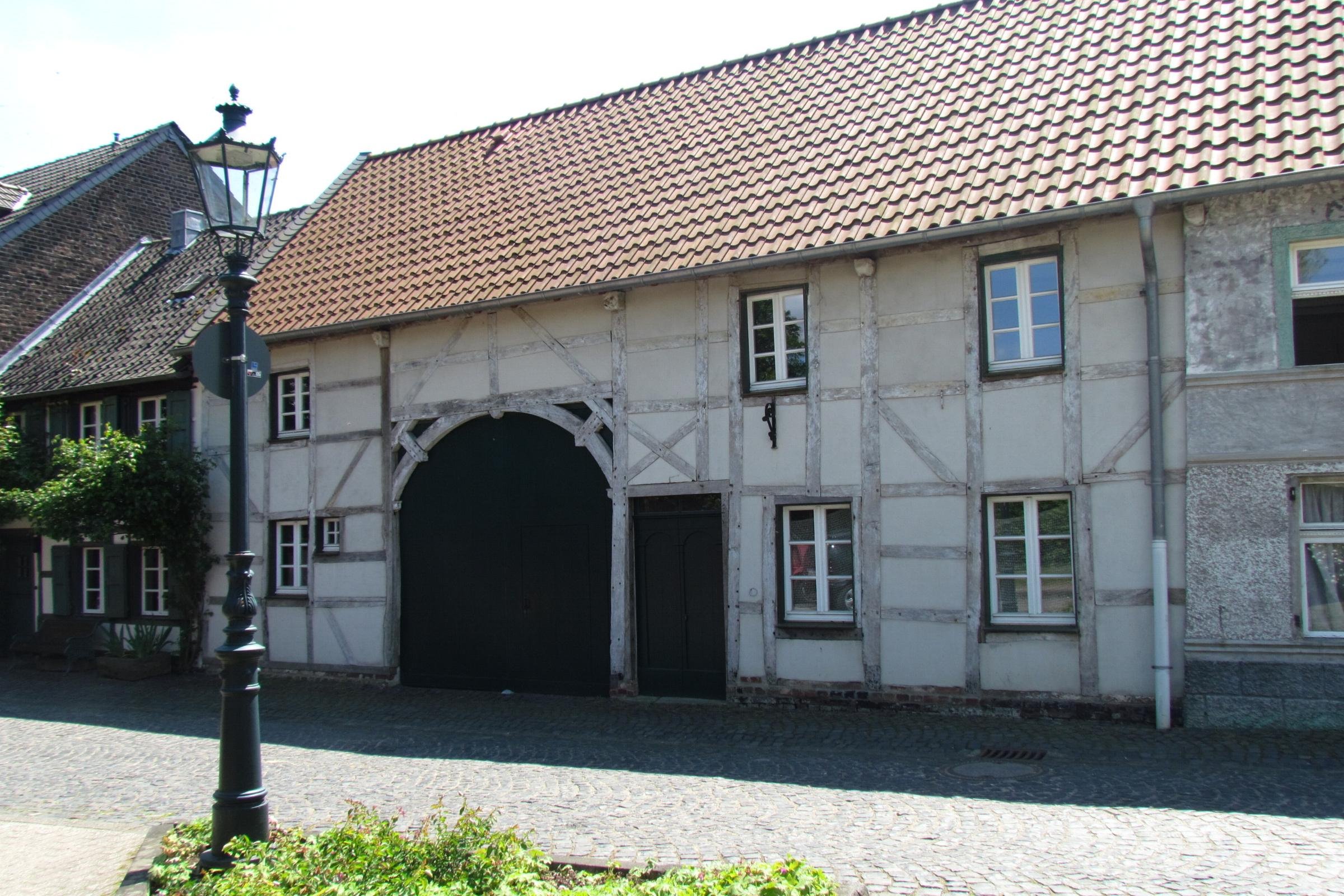 This is a photograph of an architectural monument.It is on the list of cultural monuments of Korschenbroich